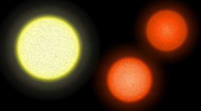 Size comparison of the Sun (left), 61 Cygni A (lower) and 61 Cygni B (upper right).